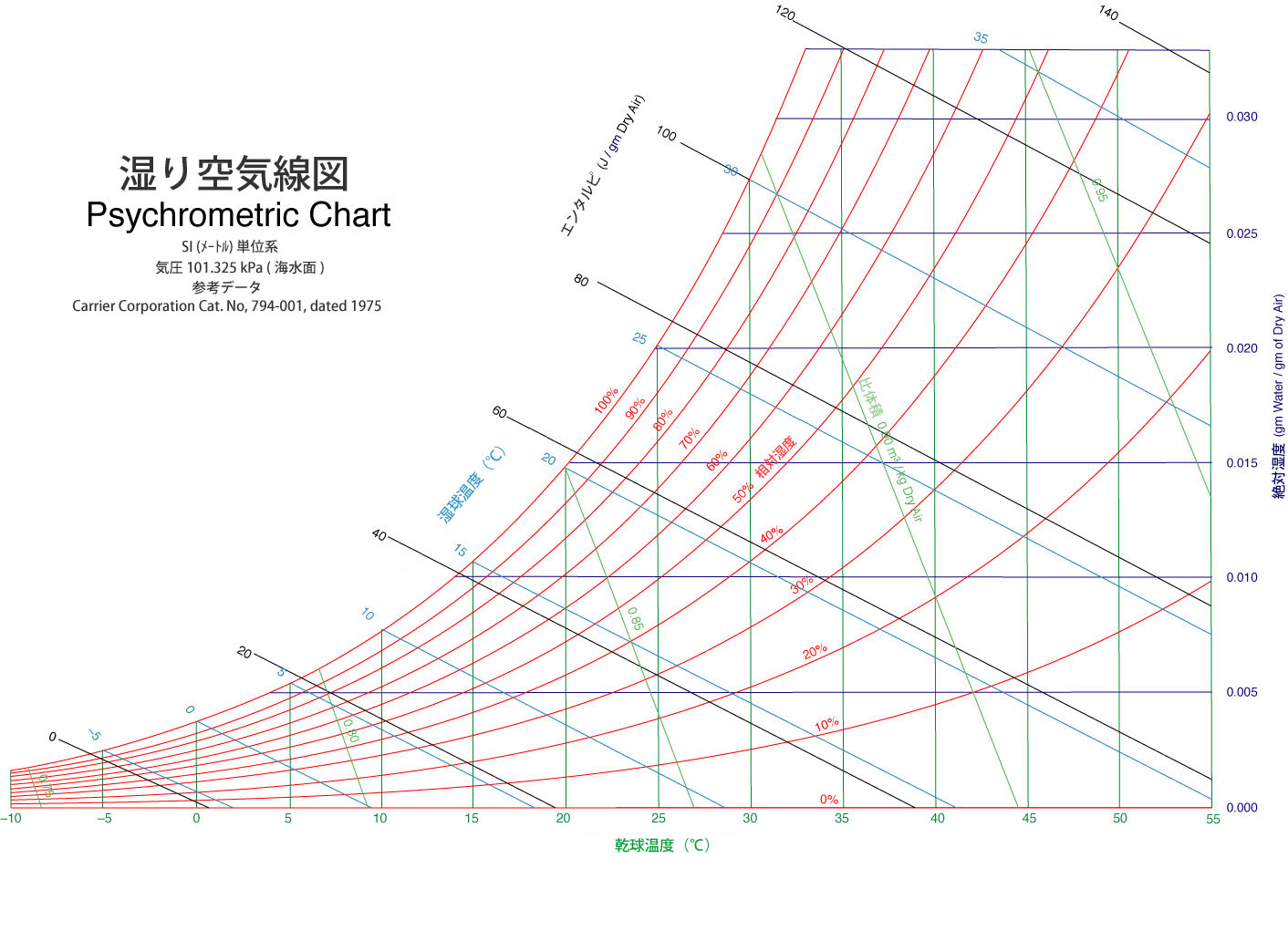 psychrometric chart Japanese Version